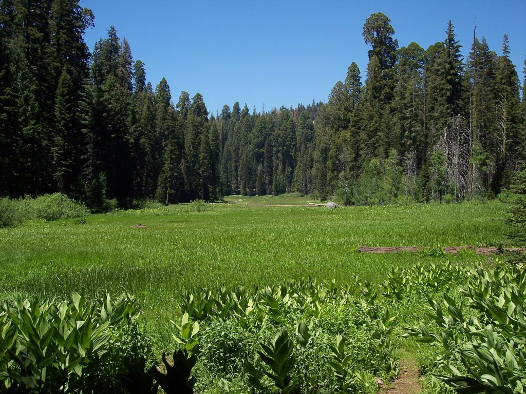 Crescent Meadow in Sequoia National Park